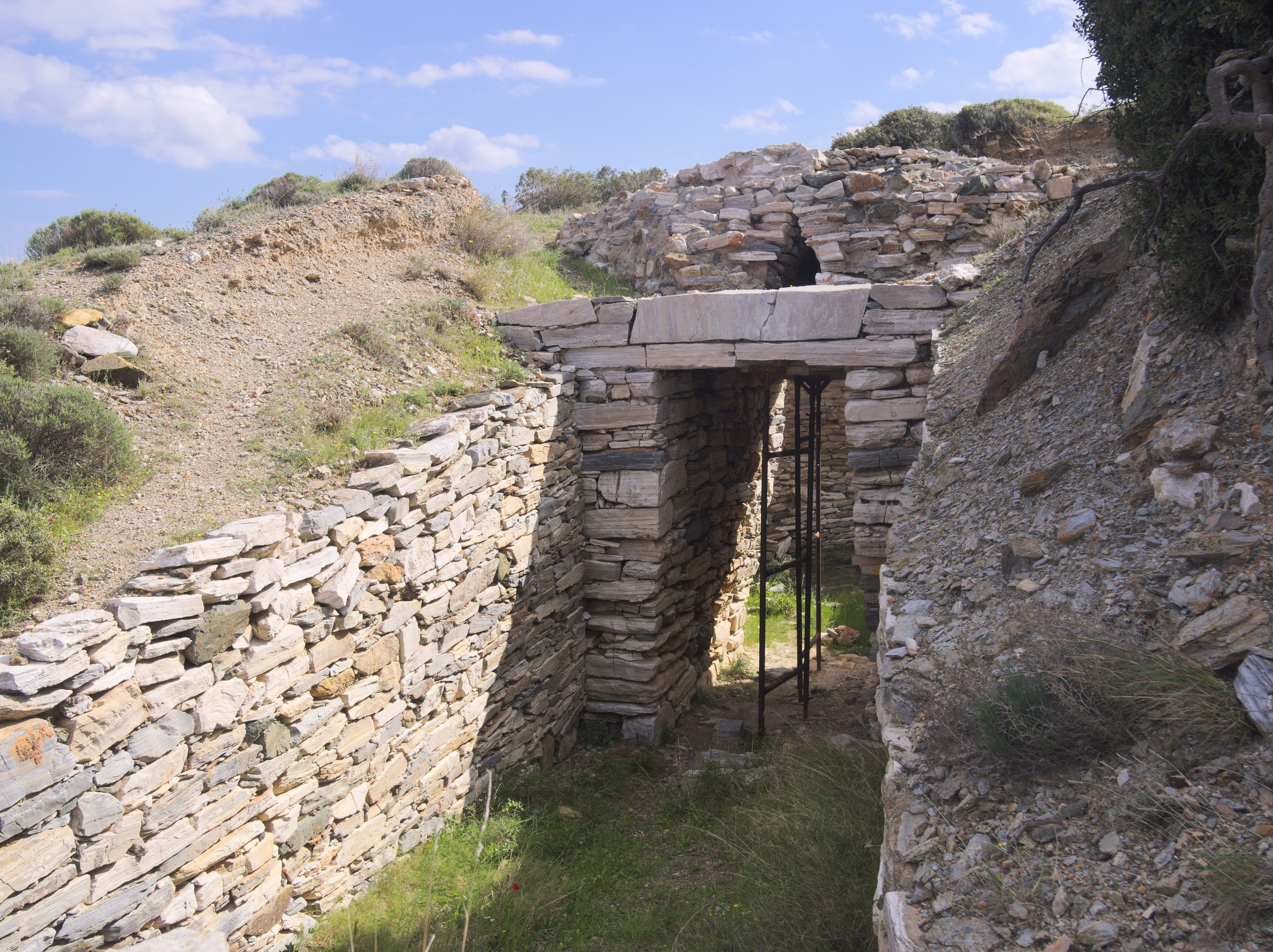 A mycenean tholos tomb at Thorikos (tomb III).